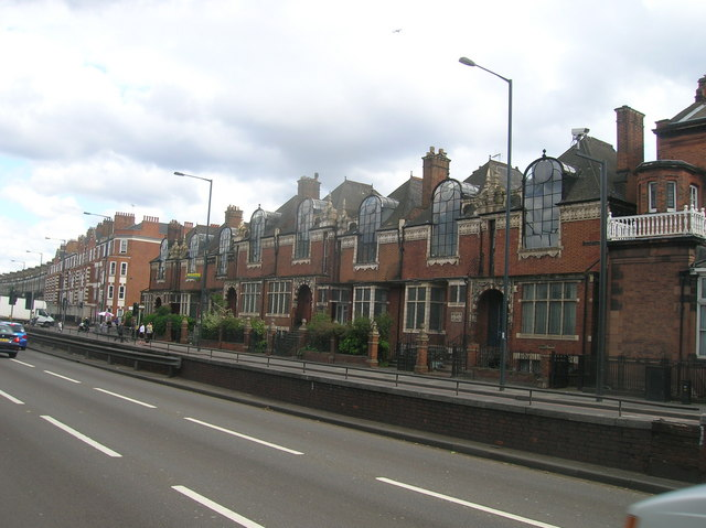 St Pauls' Studios, Talgarth Road W14 Looking towards the junction with Gliddon Road